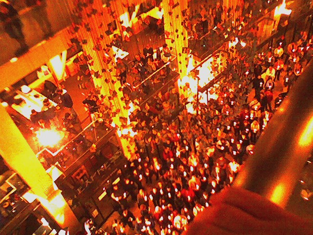 Candlelight vigil in Salt Lake City Public Library 3rd floor on 15 February 2007 for victims of Trolley square shooting. Taken by me